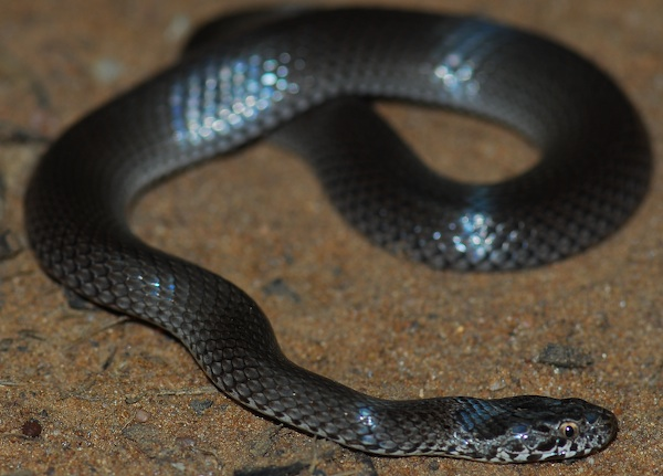 Ornamental snake (Denisonia maculata). Taken at Theodore, Queensland, Australia.